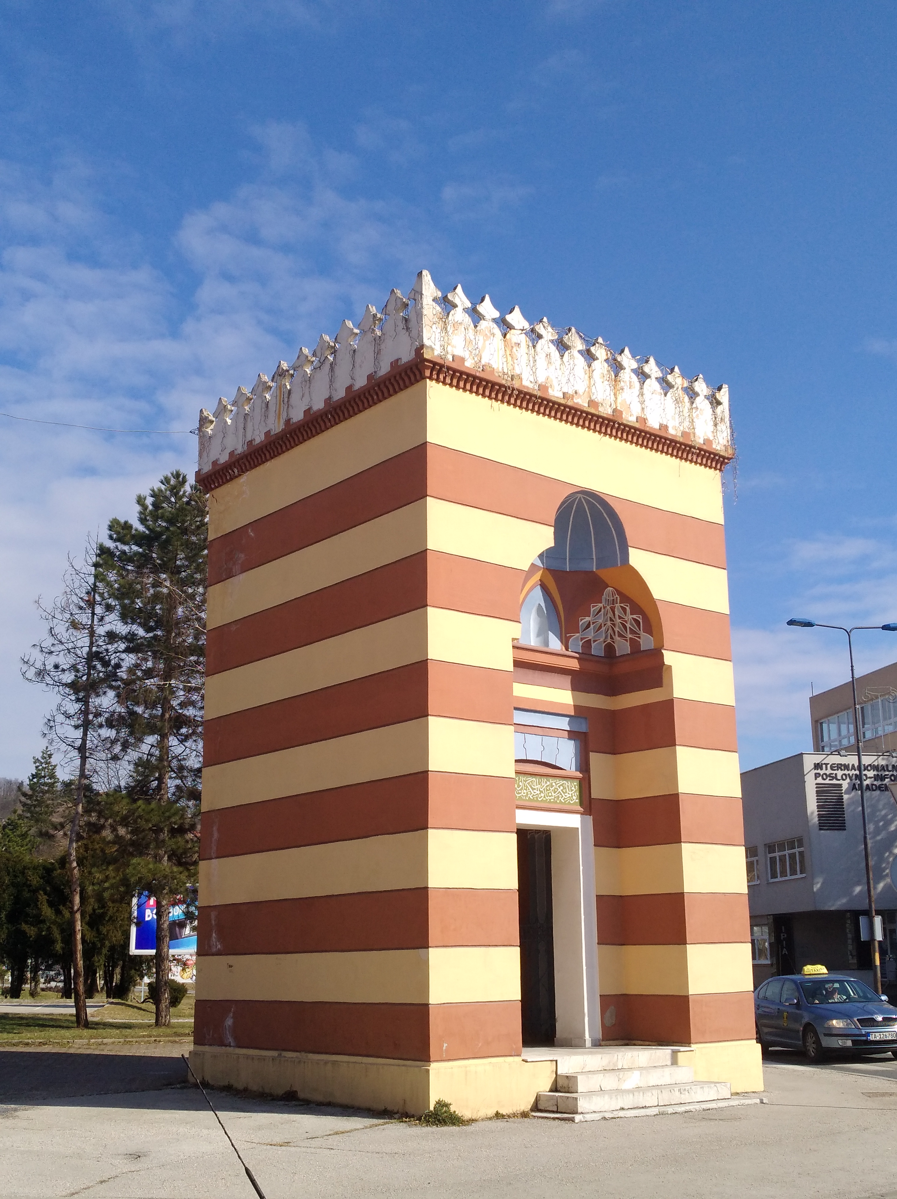 Mosque of Atik Behram Bey (or Šarena Mosque) in Tuzla, Bosnia and Herzegovina.